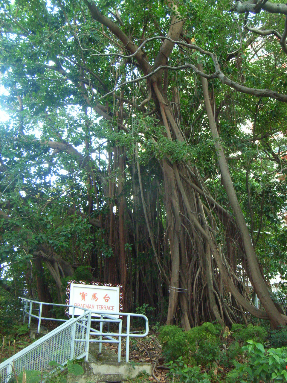 北角 百福道 黃昏 - 寶馬台